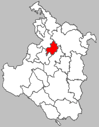 Location of city inside Karlovac County